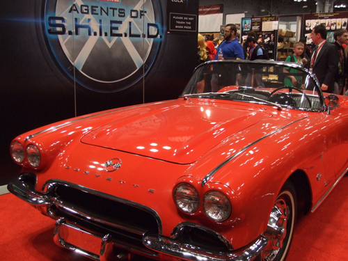 New York Comic Con 2013 (NYCC 2013)